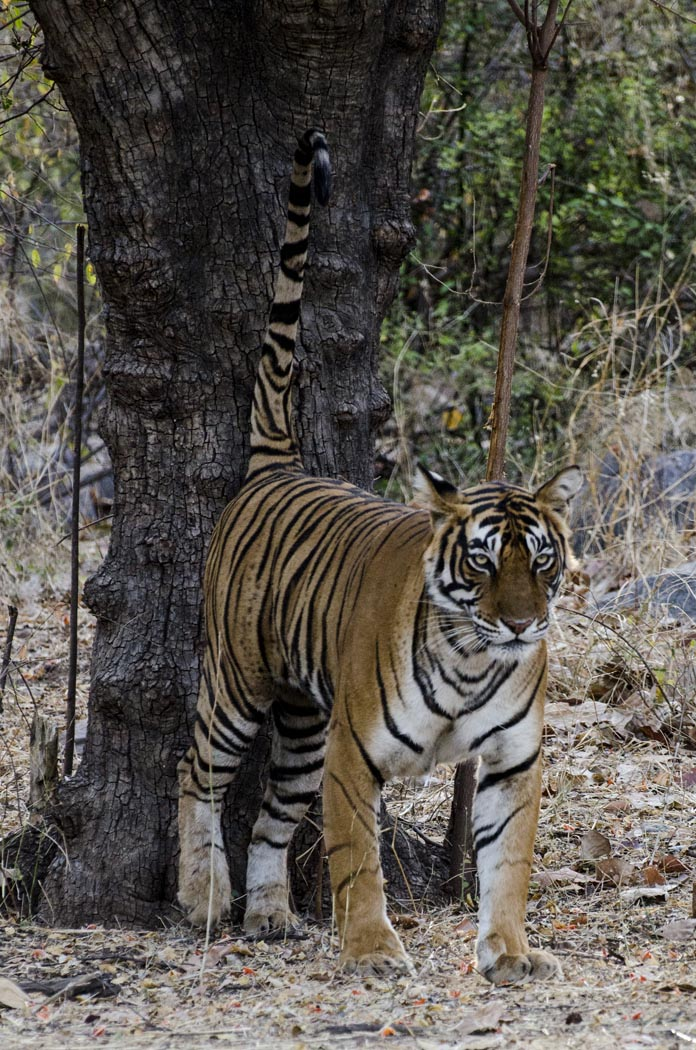 A tiger marking its territory with its urine, at the Ranthambore park